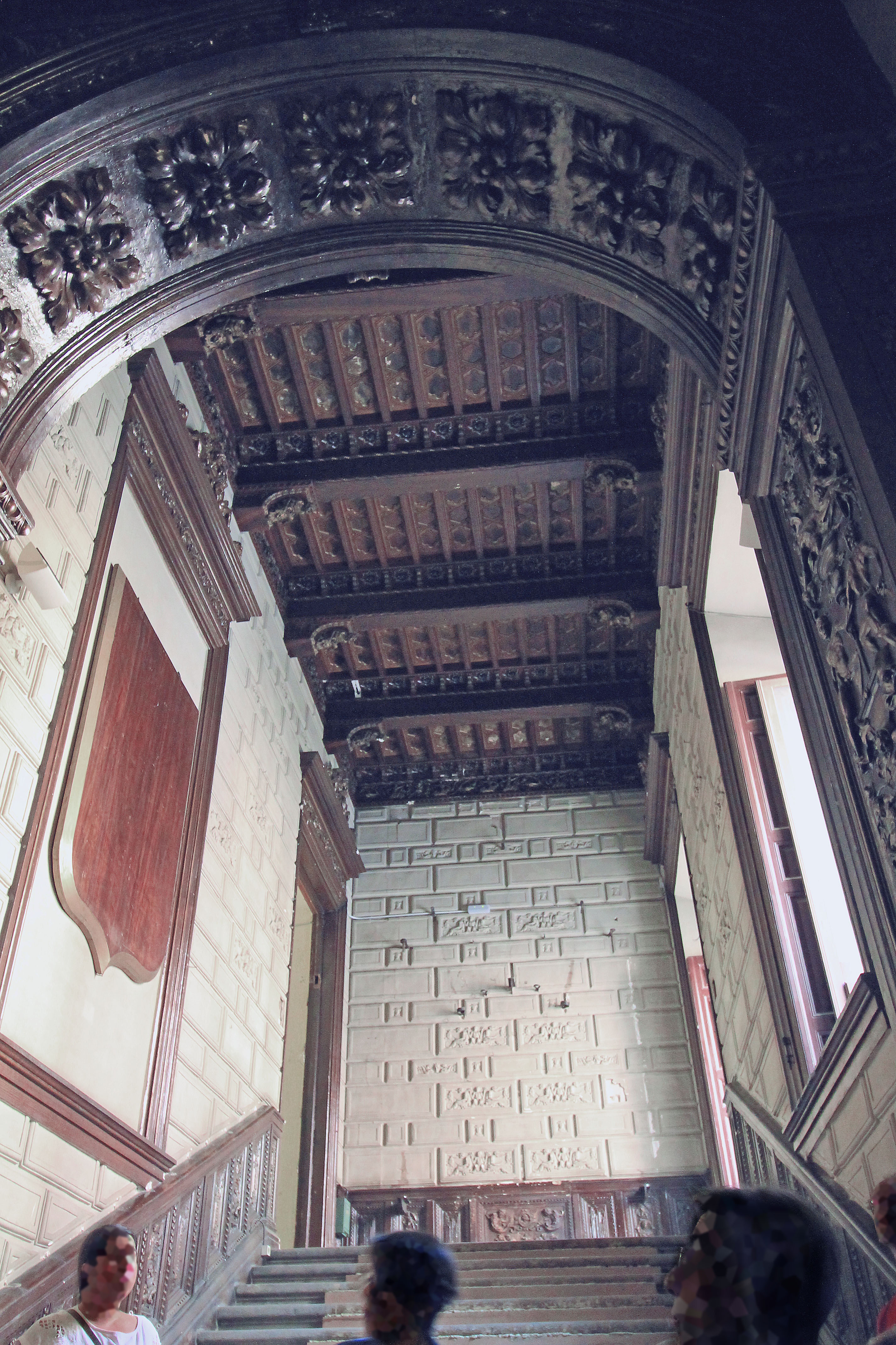 Interior of Salón de Reinos in Madrid (Spain).